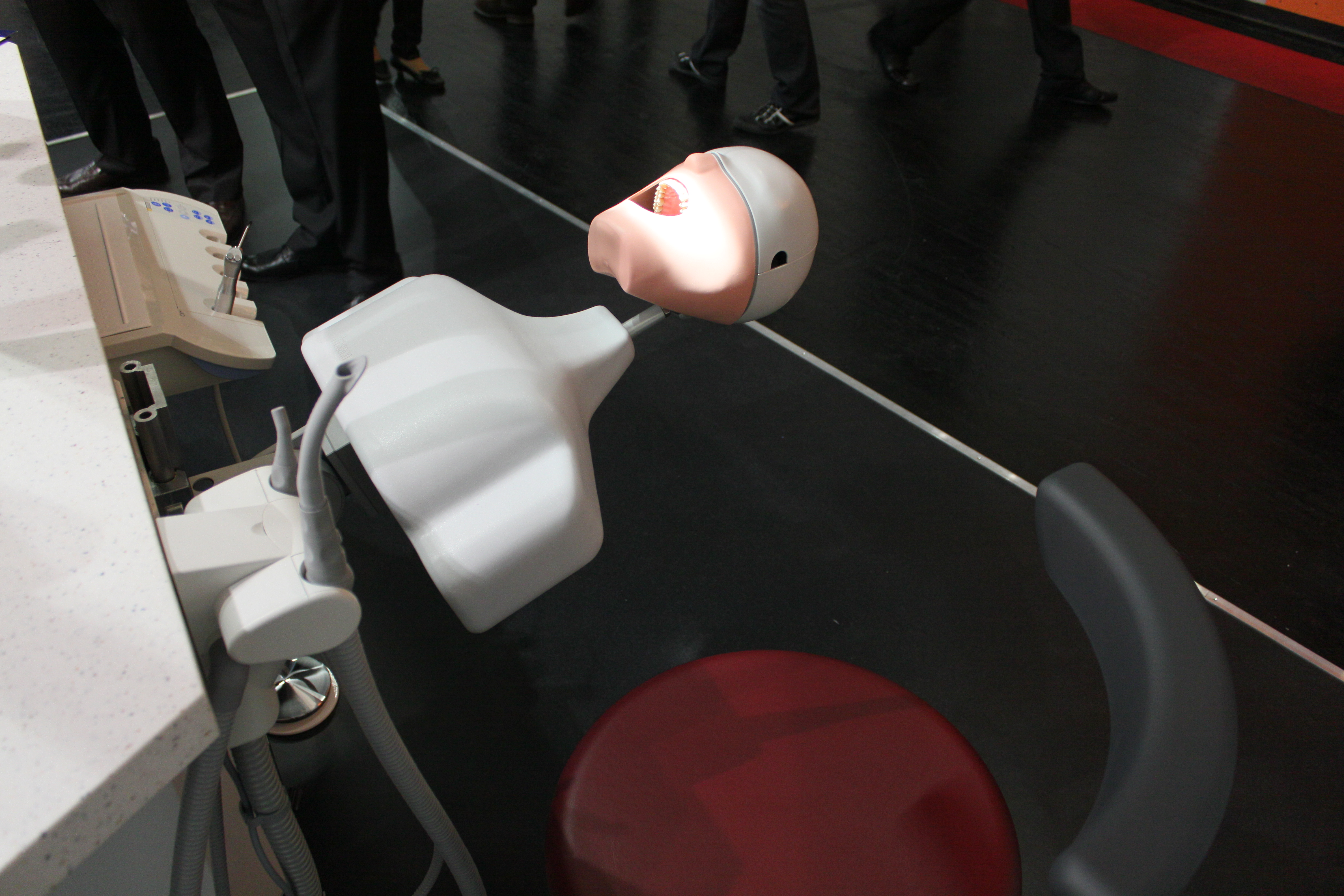 Phantom head; dentistry